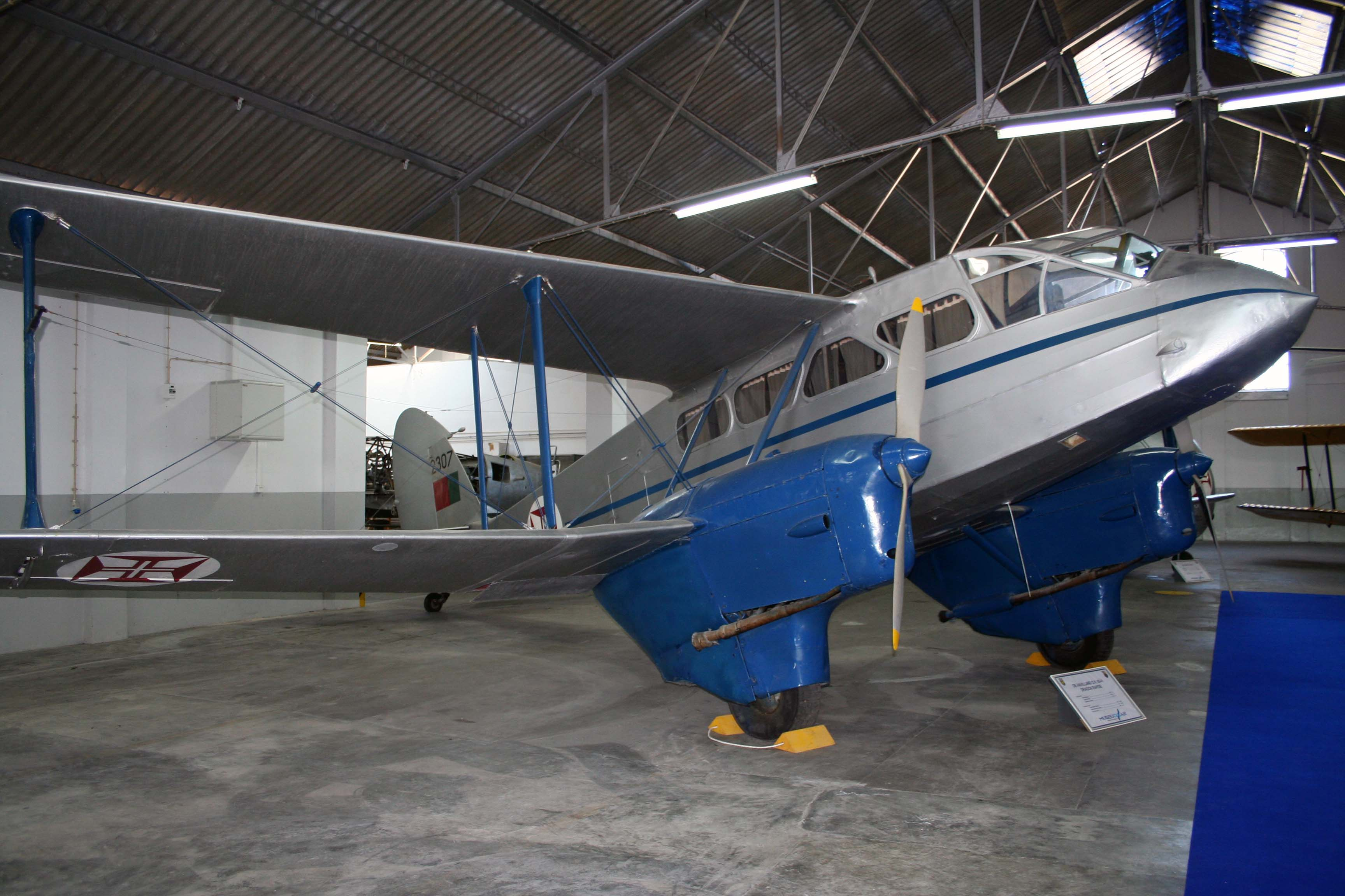 Portuguese Air Museum Portuguese Air Force Military Aircraft - De Havilland DH-89 Dragon Rapide Portuguese Air Museum Source/Author Soares da Silva